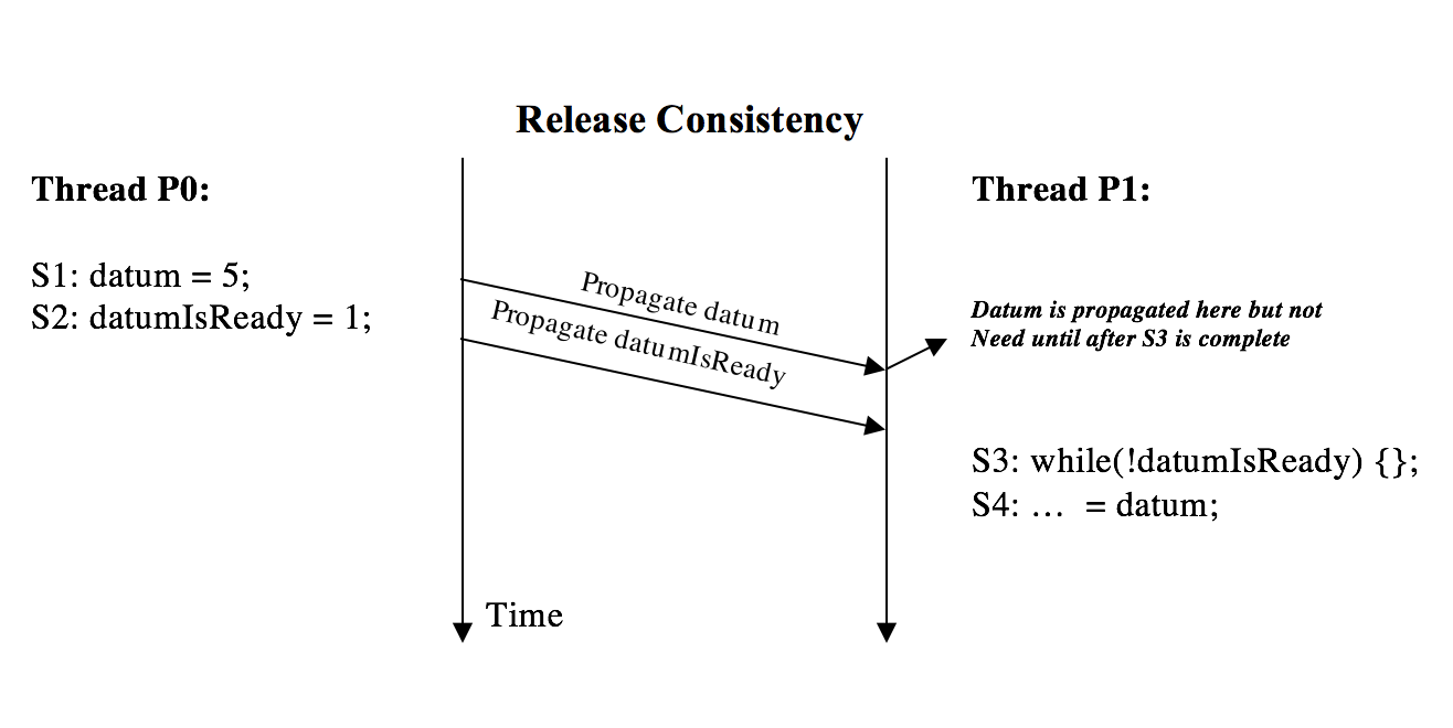 Eager RC